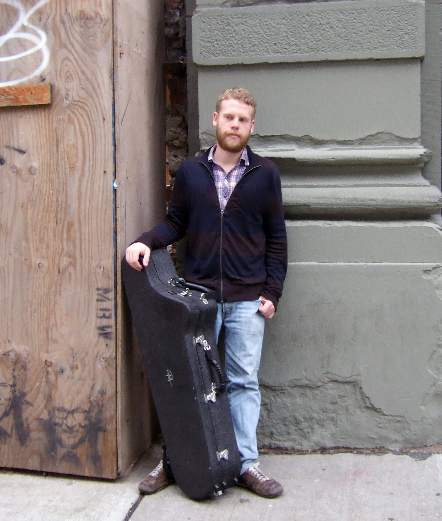 This is a photo of Jonah Parzen-Johnson posing on the street in New York city, holding his saxophone case. The photo was taken in 2009.